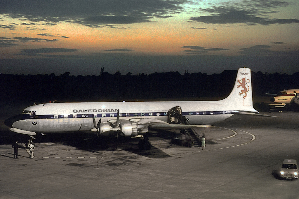 Douglas DC-7C of Caledonian Airways at Manchester Airport in 1964